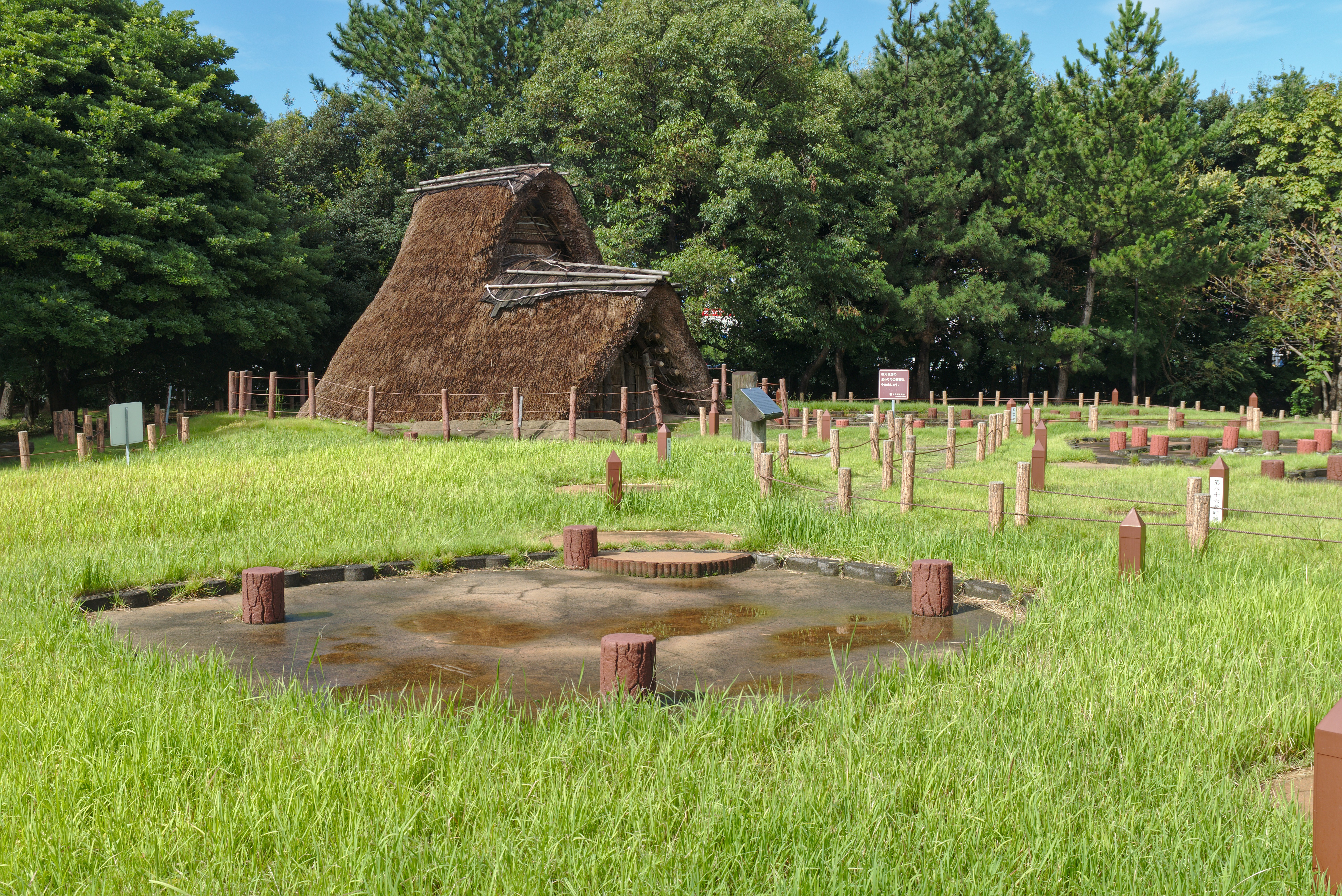 Okyouzuka Ruins site, in Nonoichi, Ishikawa, Japan.